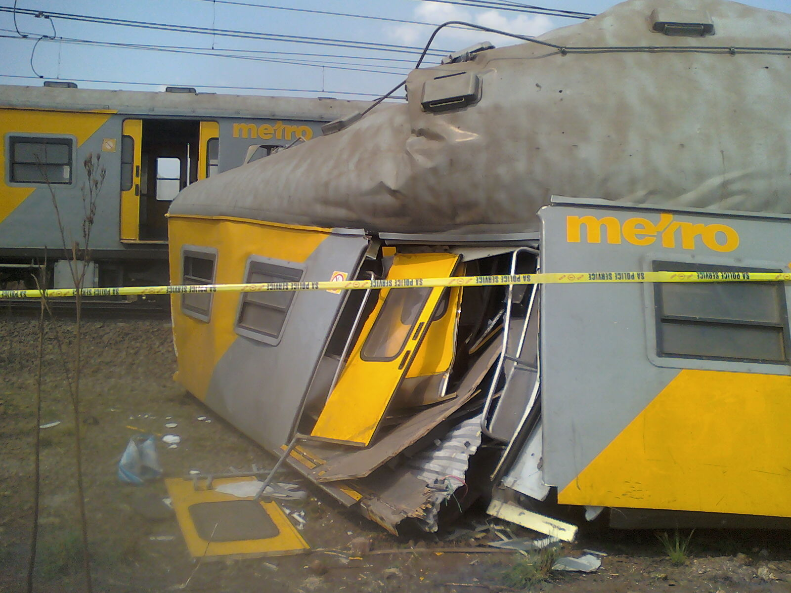 Scores of people were injured this morning when a freight and a passenger train collided head on with each near the Angus Train Station in Alberton, South Africa. Photo by Gavin Blane, ER24.